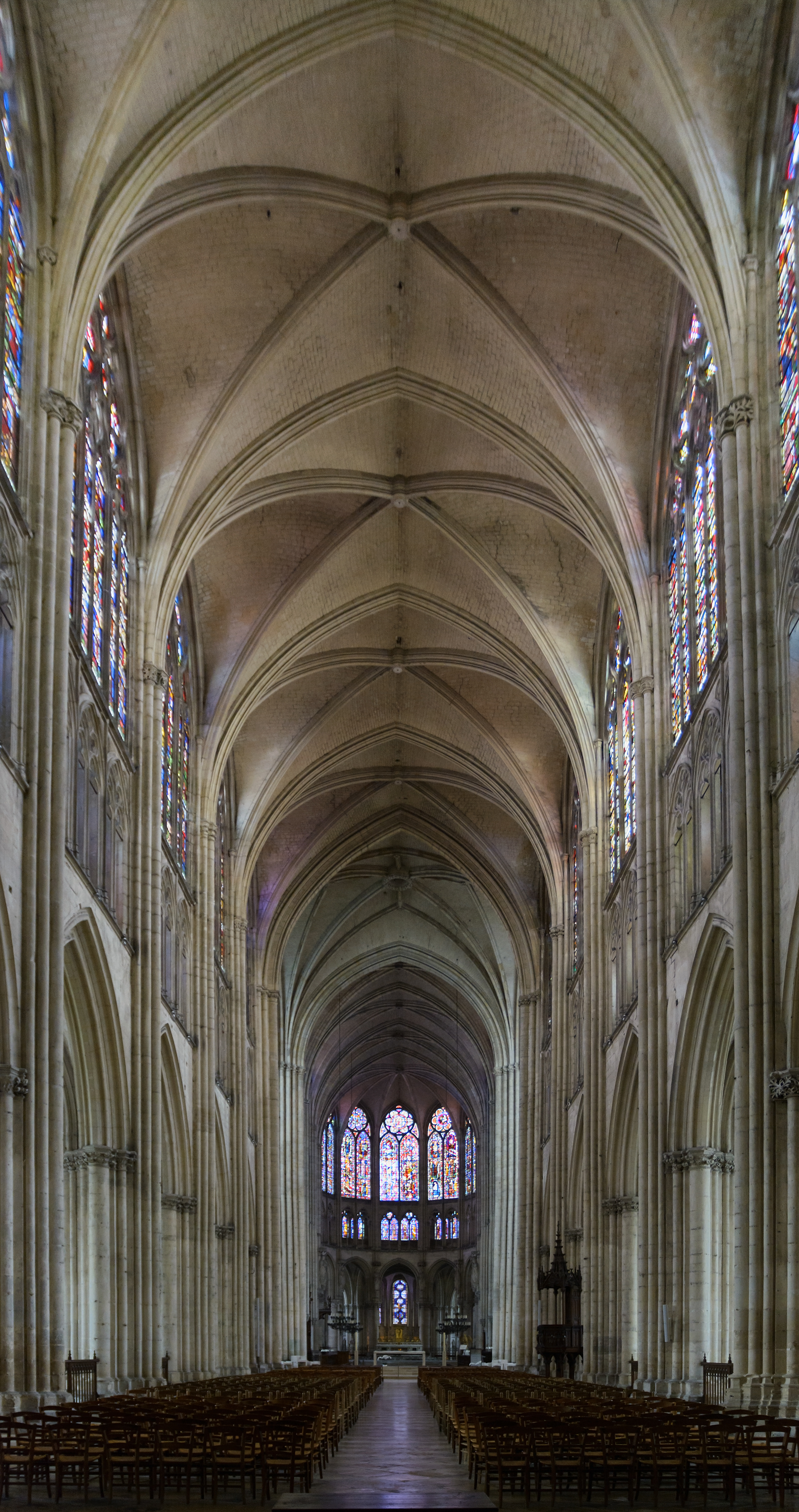 Troyes Cathedral, Aube, Champagne-Ardenne, France: the nave